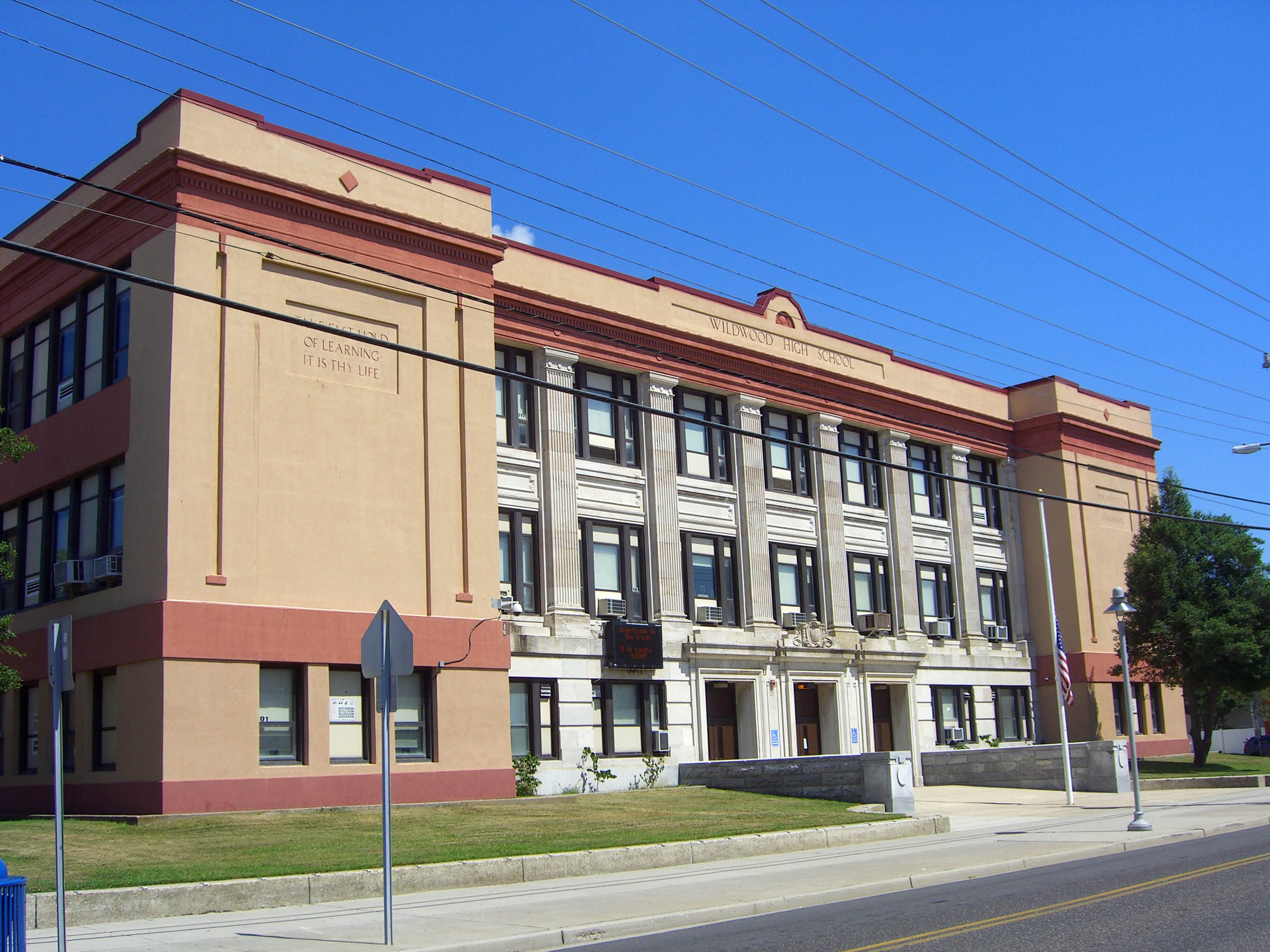 Wildwood High School in Wildwood, New Jersey, as seen on July 25, 2015. This photo was created by Luigi Novi. It is not in the public domain, and use of this file outside of the licensing terms is a copyright violation.